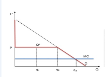 Bertrand Model of Oligopoly Market